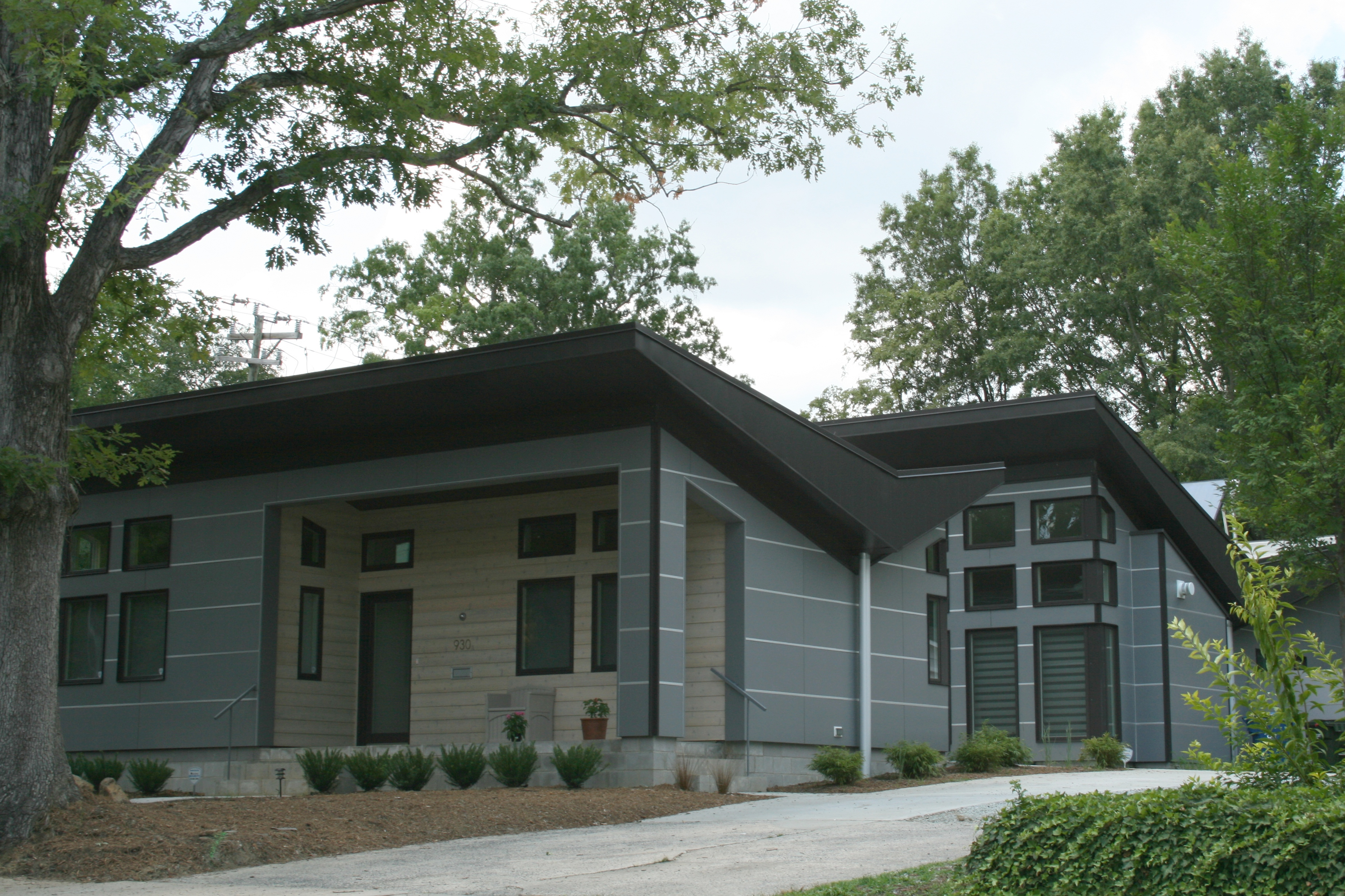 A unique energy-efficient home built in place of a historic house in 2009 by BuildSense at 930 West Markham Avenue in Trinity Park, Durham, North Carolina.